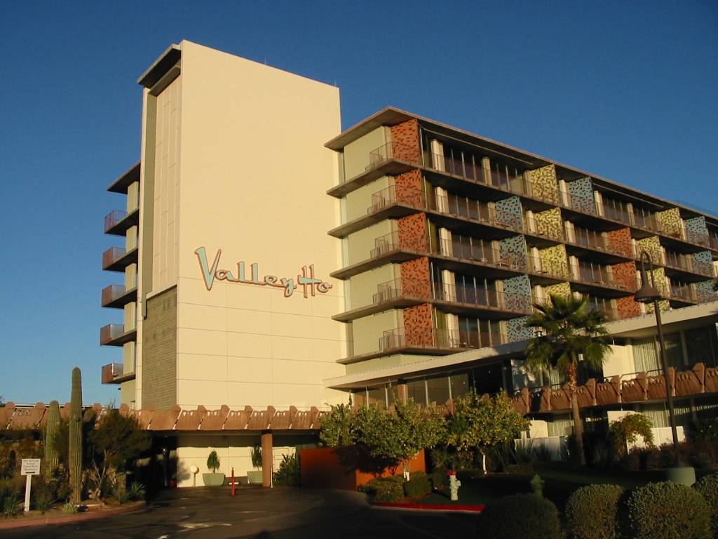 Photograph of Hotel Valley Ho at sunrise in December. Scottsdale, Arizona.